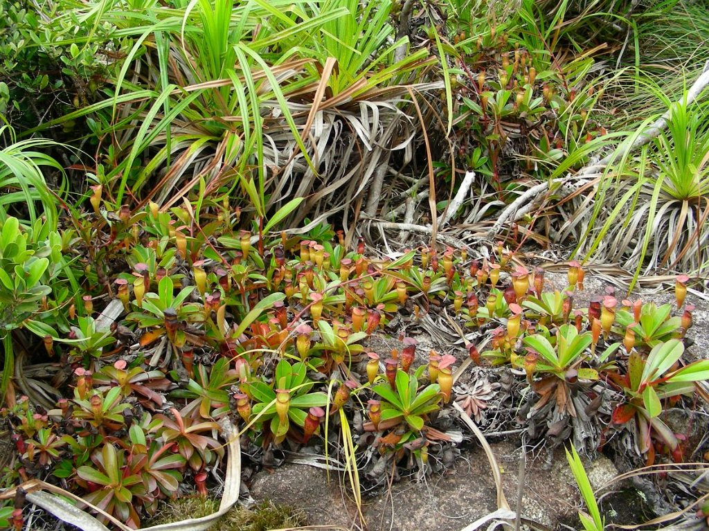 Nepenthes pervillei pitcher, Seychelles